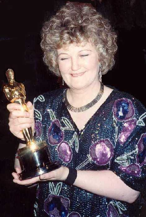 Oscar winner Brenda Fricker at the 62nd Annual Academy Awards (cropped and retouched).